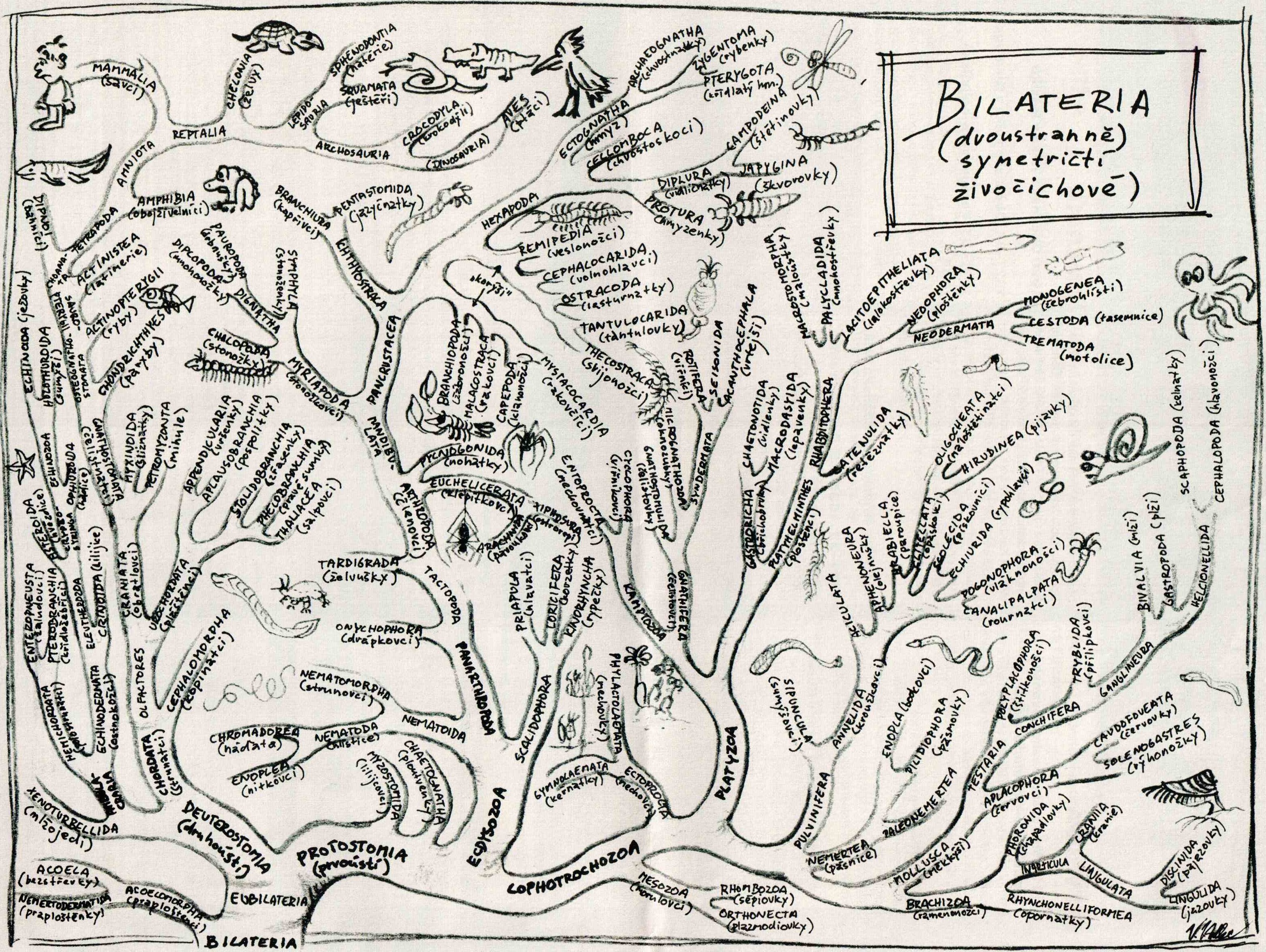 Phylogeny of bilateria (in czech)